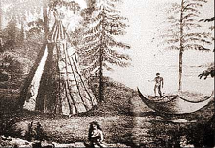 Imaginary picture of a beothuk camp, drawn by Major John Cartwright.